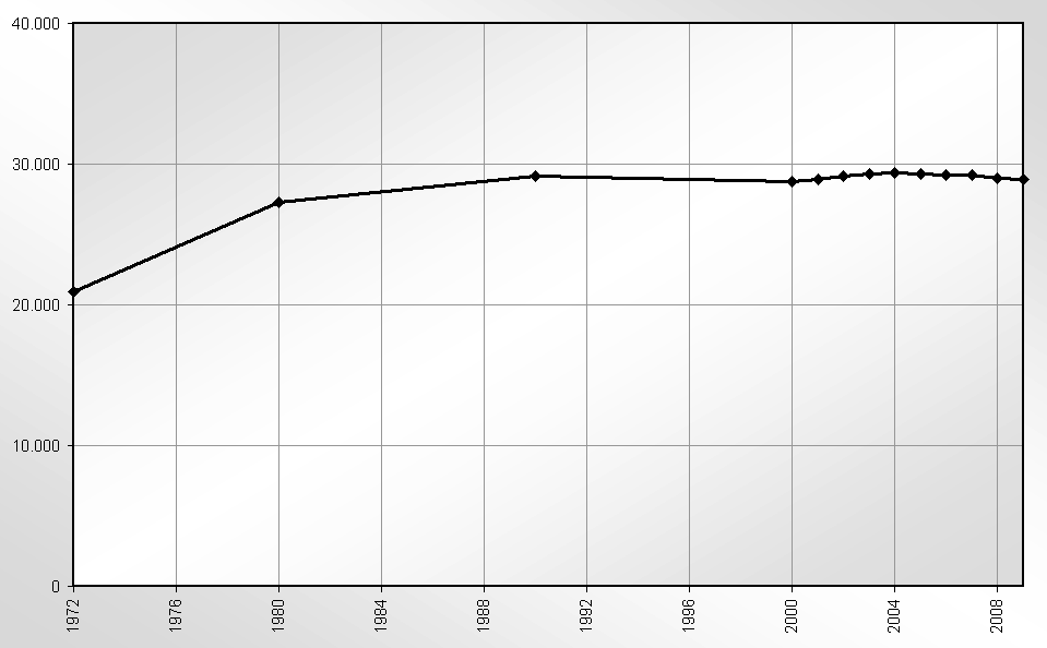 Population development of Taunusstein (1972-2009)